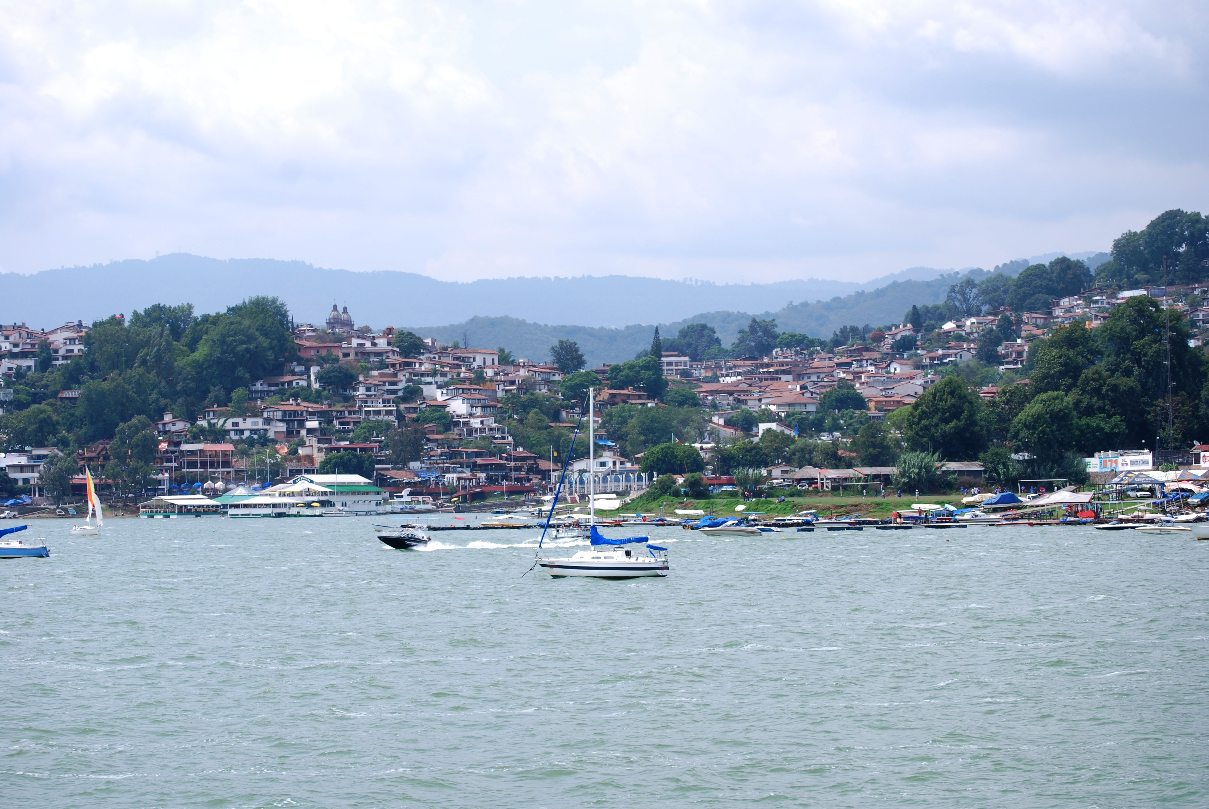 Panoramic of Valle de Bravo, Mexico taked from Lake Valle de Bravo